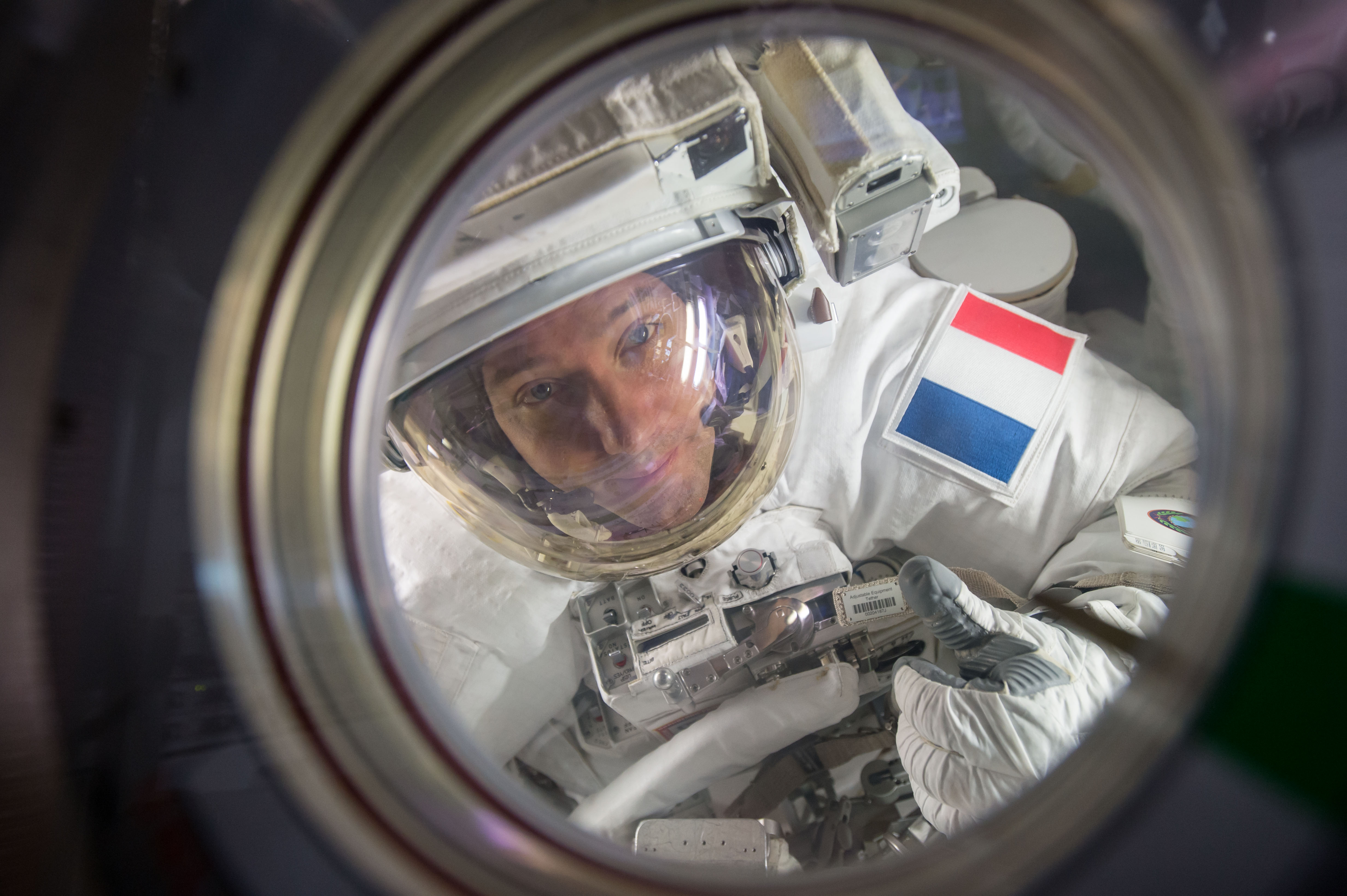 ESA (European Space Agency) astronaut Thomas Pesquet inside the Quest airlock prior to hatch opening and the beginning of his first spacewalk. During the nearly six hour spacewalk, the two astronauts successfully installed three new adapter plates and hooked up electrical connections for three of the six new lithium-ion batteries on the International Space Station. Astronauts were also able to accomplish several get-ahead tasks including stowing padded shields from Node 3 outside of the station to make room inside the airlock and taking photos to document hardware for future spacewalks.